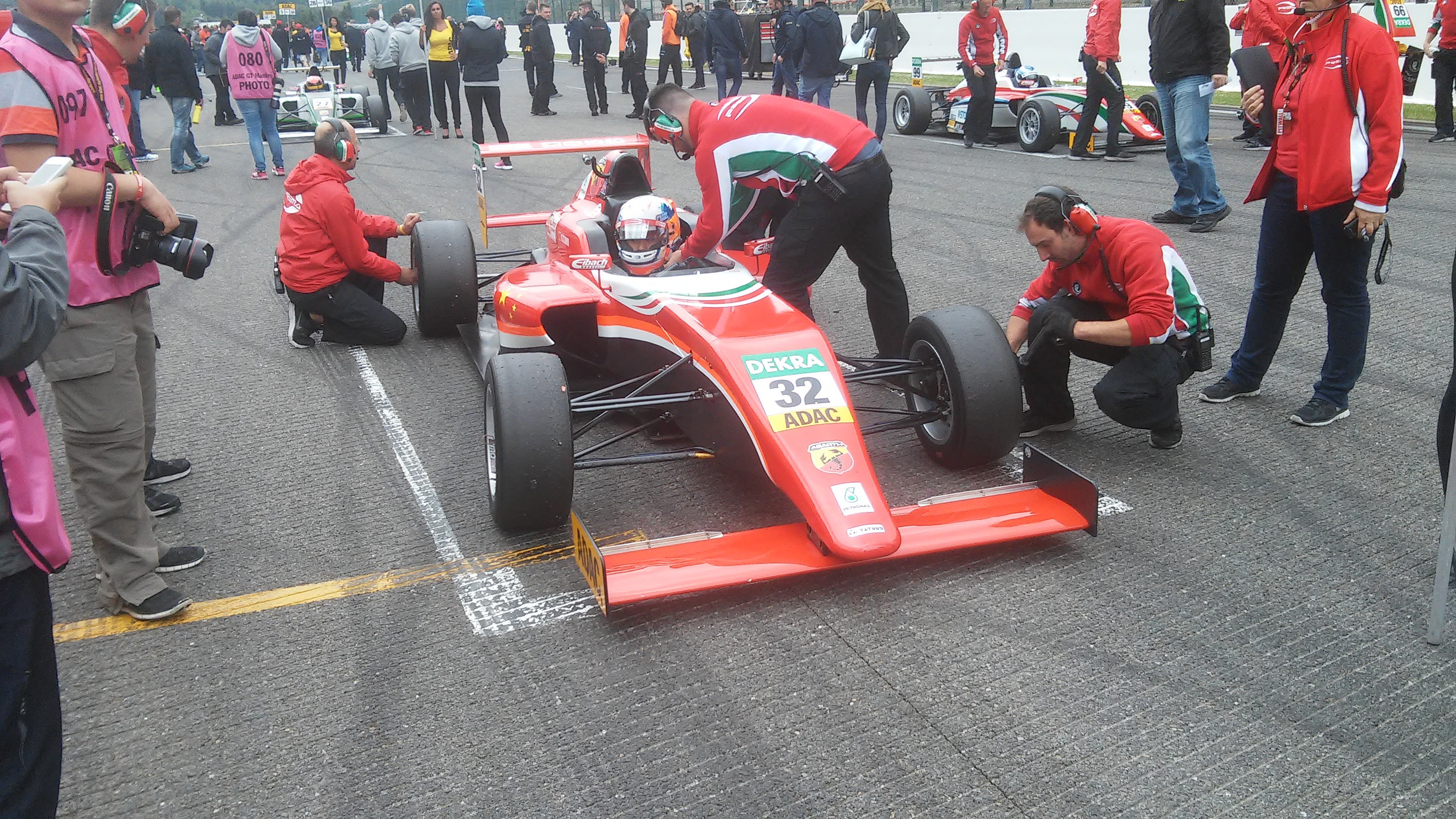 Guanyu Zhou on the grid at Spa-Francorchamps 2015.